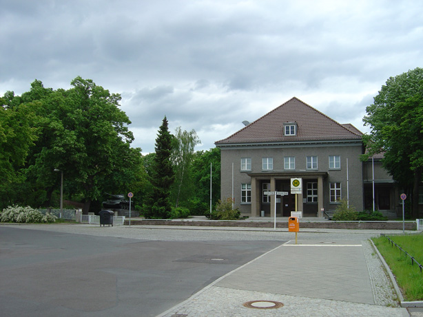 House of the German-Russian Museum, Deutsch-Russisches Museum Berlin-Karlshorst, Karlshorst, Berlin, Germany. In the same house the commander of the OKW Wilhelm Keitel signed the German surrender in the World War II on May 8 1945.